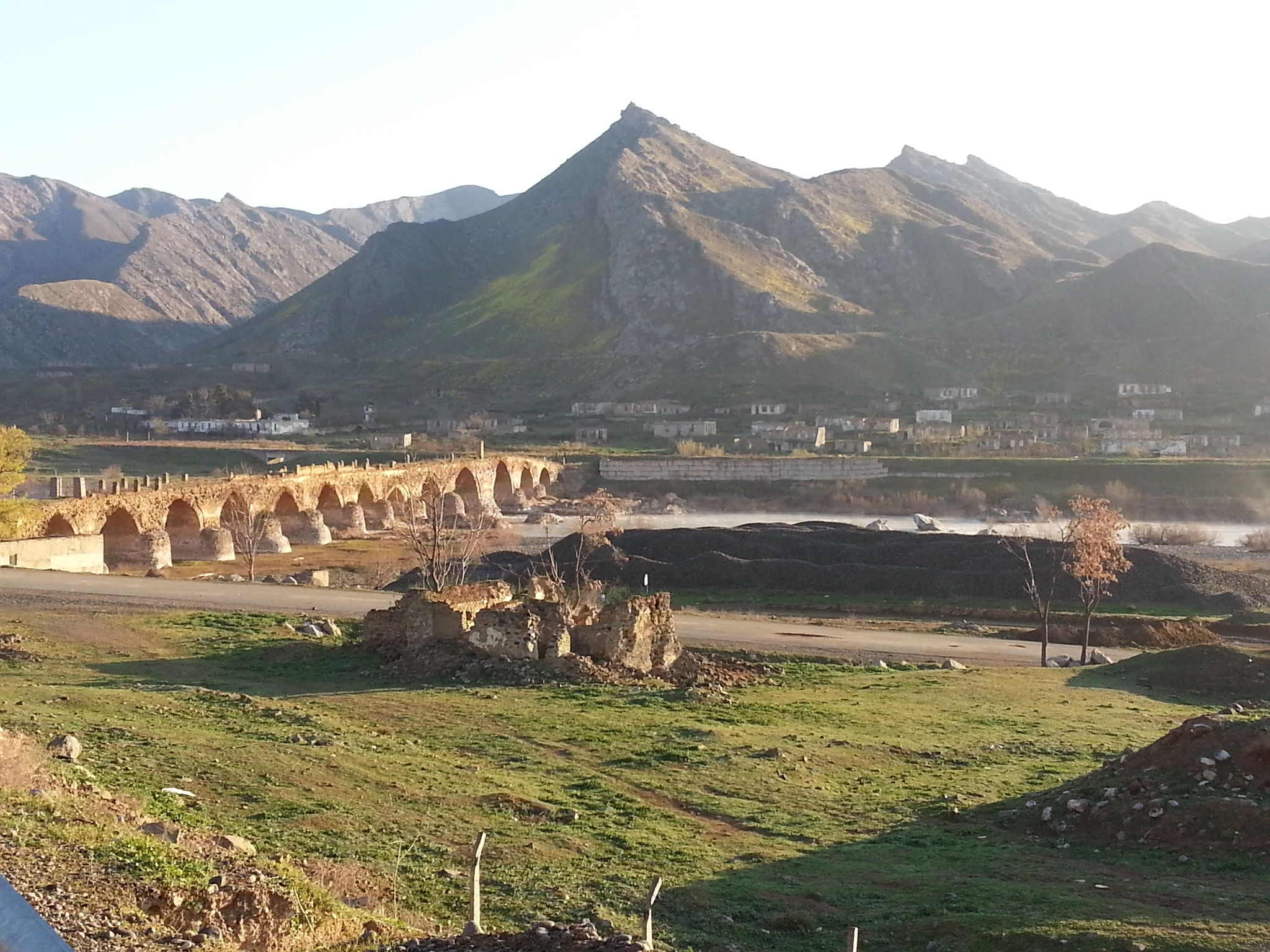 A view of the Khudaferin bridge and destroyed Kumlak settlement.